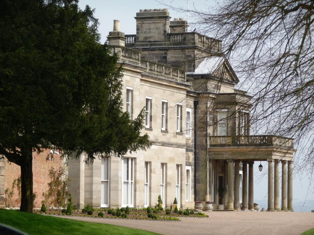 South front of Dunstall Hall, near to Dunstall, Staffordshire, Great Britain. An entrance designed to impress.